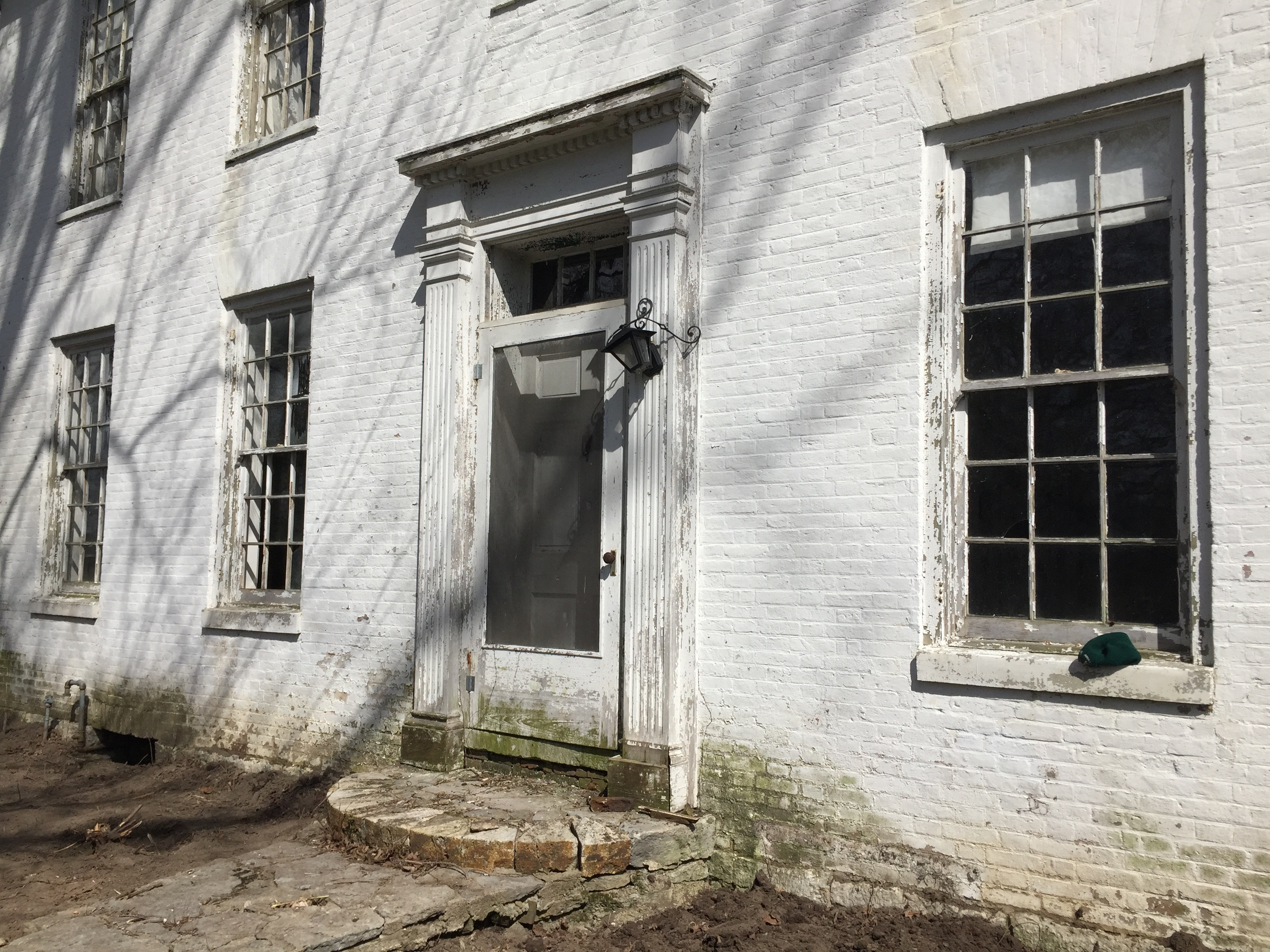 Flemish bond, 5-bay frontispiece; subtle flat arches are original; entry has been embellished.